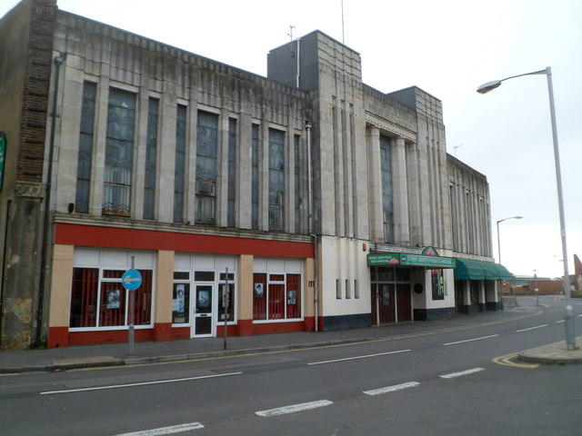 Llanelli : Terry Griffiths Matchroom viewed from the east